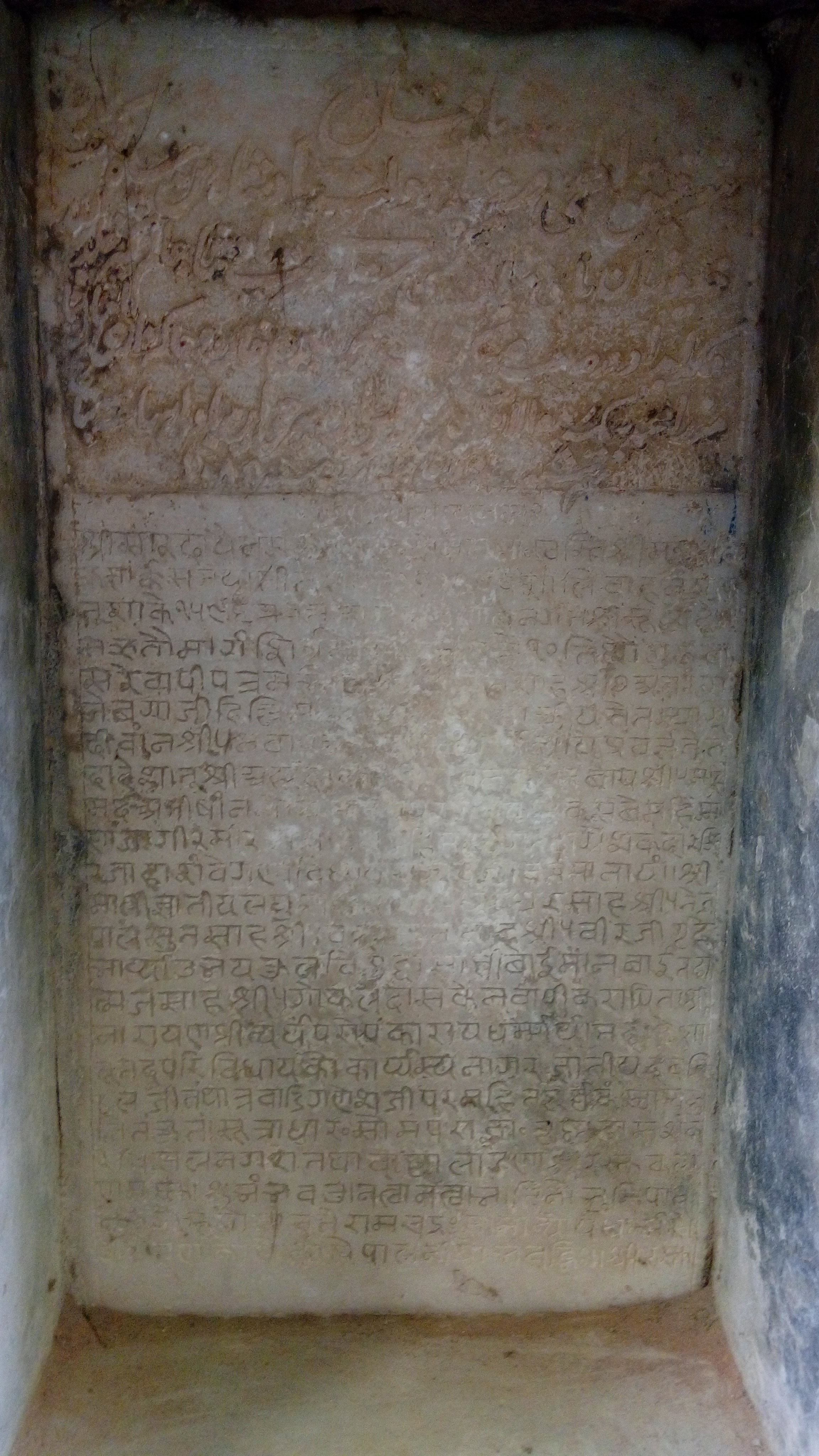 Inscription in Boter Kotha ni Vav, Mehsana, Gujarat, India